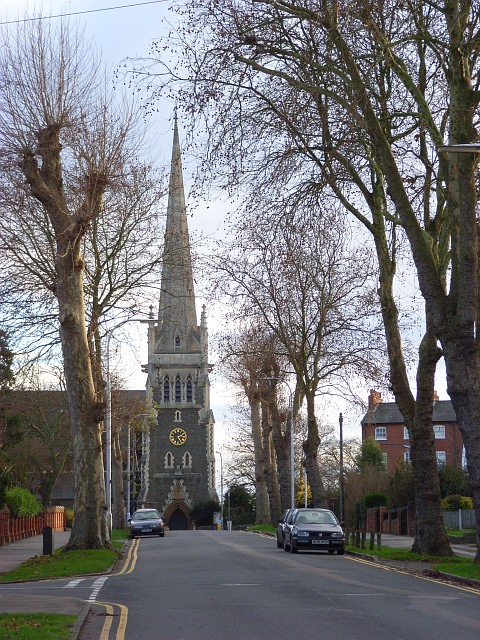 Christ Church, Reading Looking up from Kendrick Road's junction with Allcroft Road. The church was built in the 1860s. The 164 foot spire is a very prominent feature of the Reading landscape due to the church's elevated position.